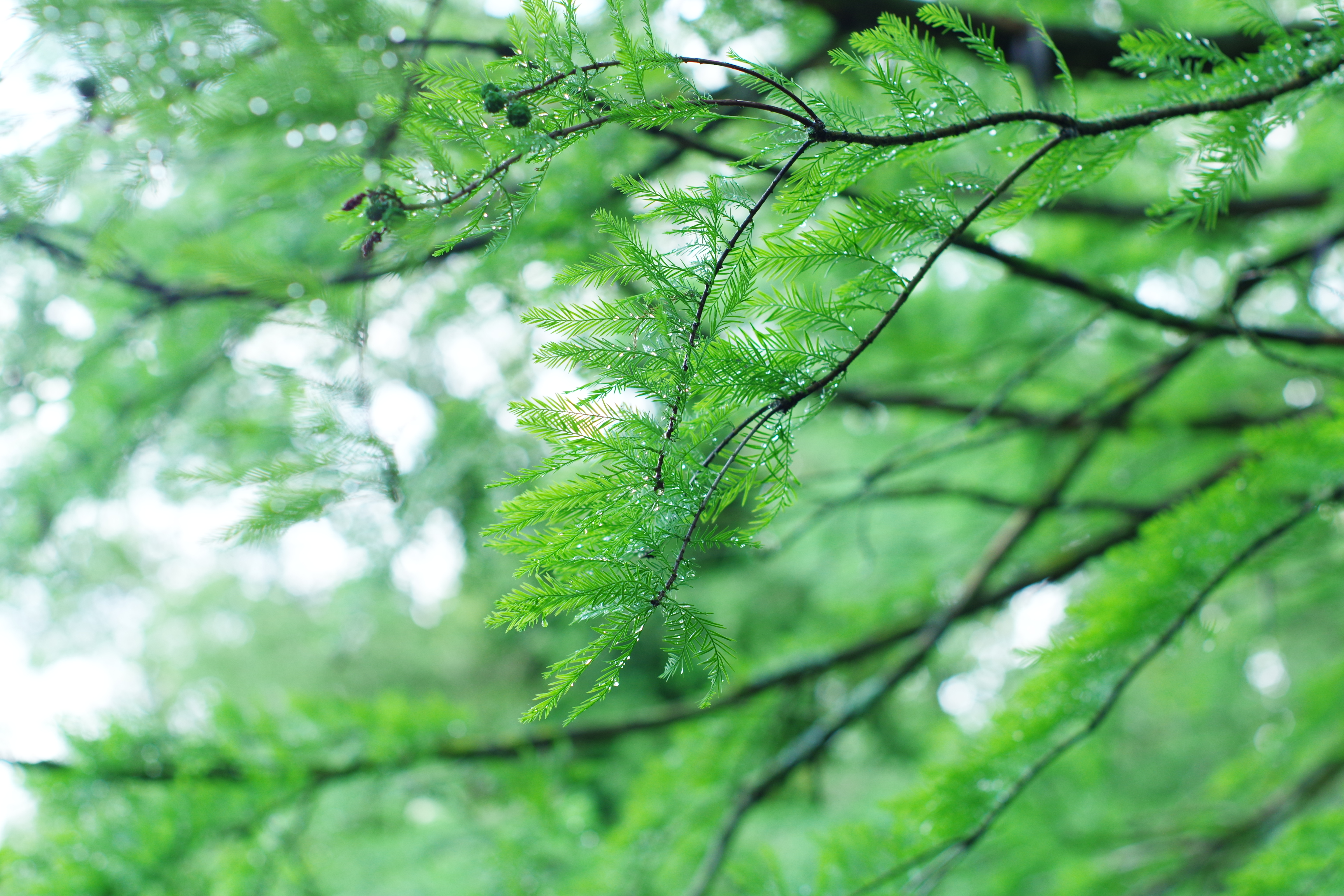 Sample of sharp image which is not treated numerically